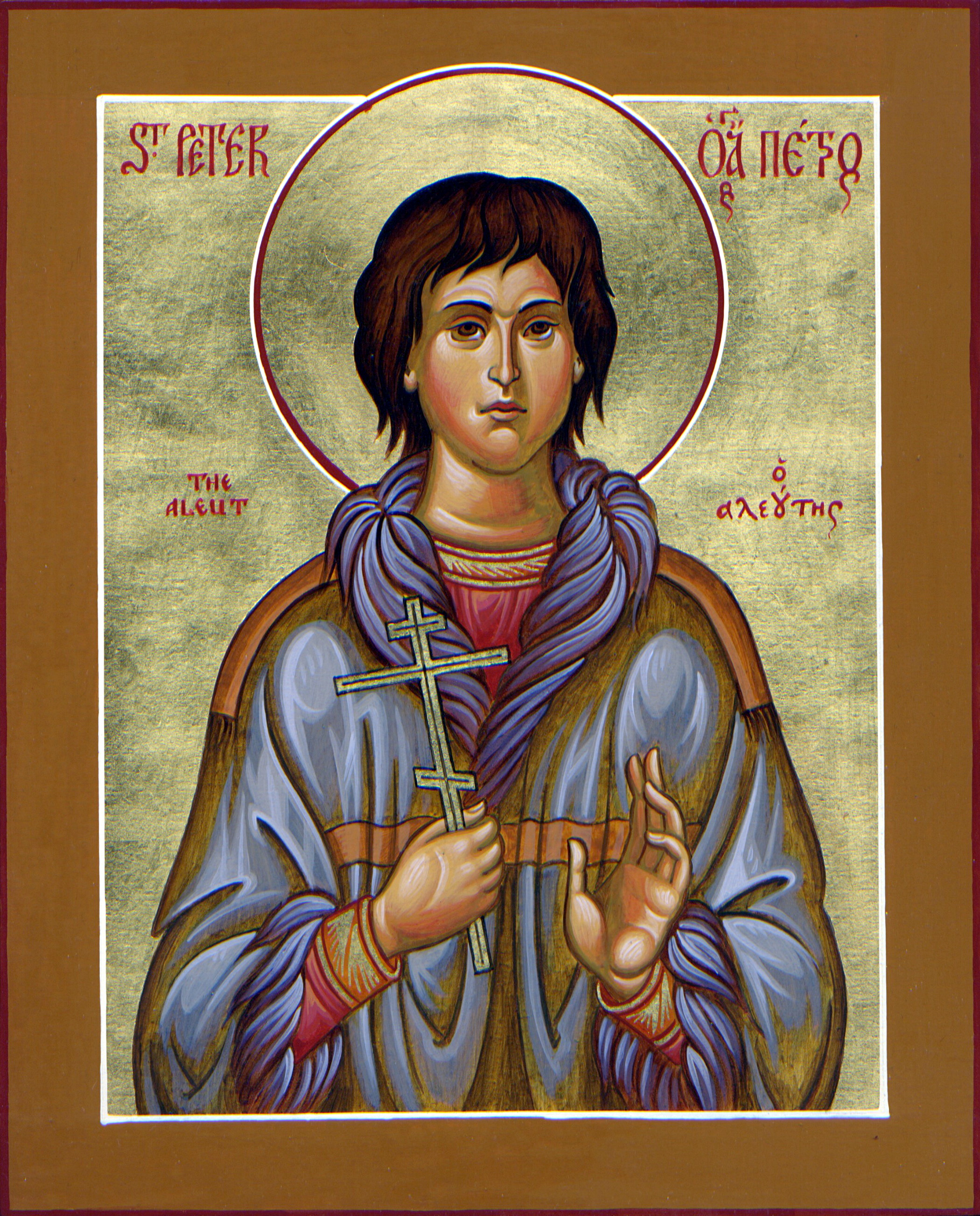 Inscription is in English & Greek, as the icon is intended as a gift to the Kykkos Monastery in Cyprus. For more information on St. Peter, please see: Peter the Aleut